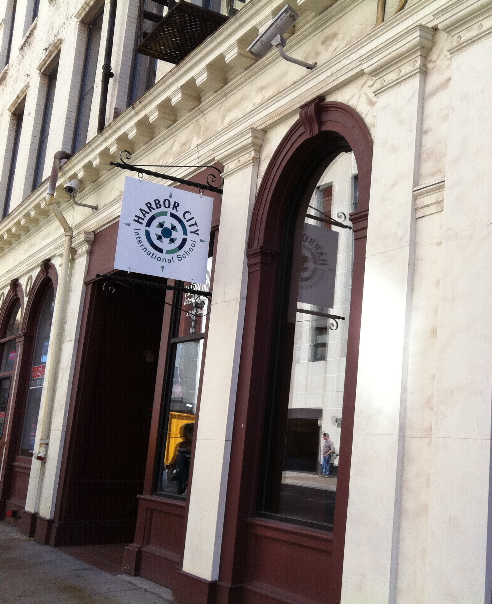 Outdoor entrance to Harbor City International School